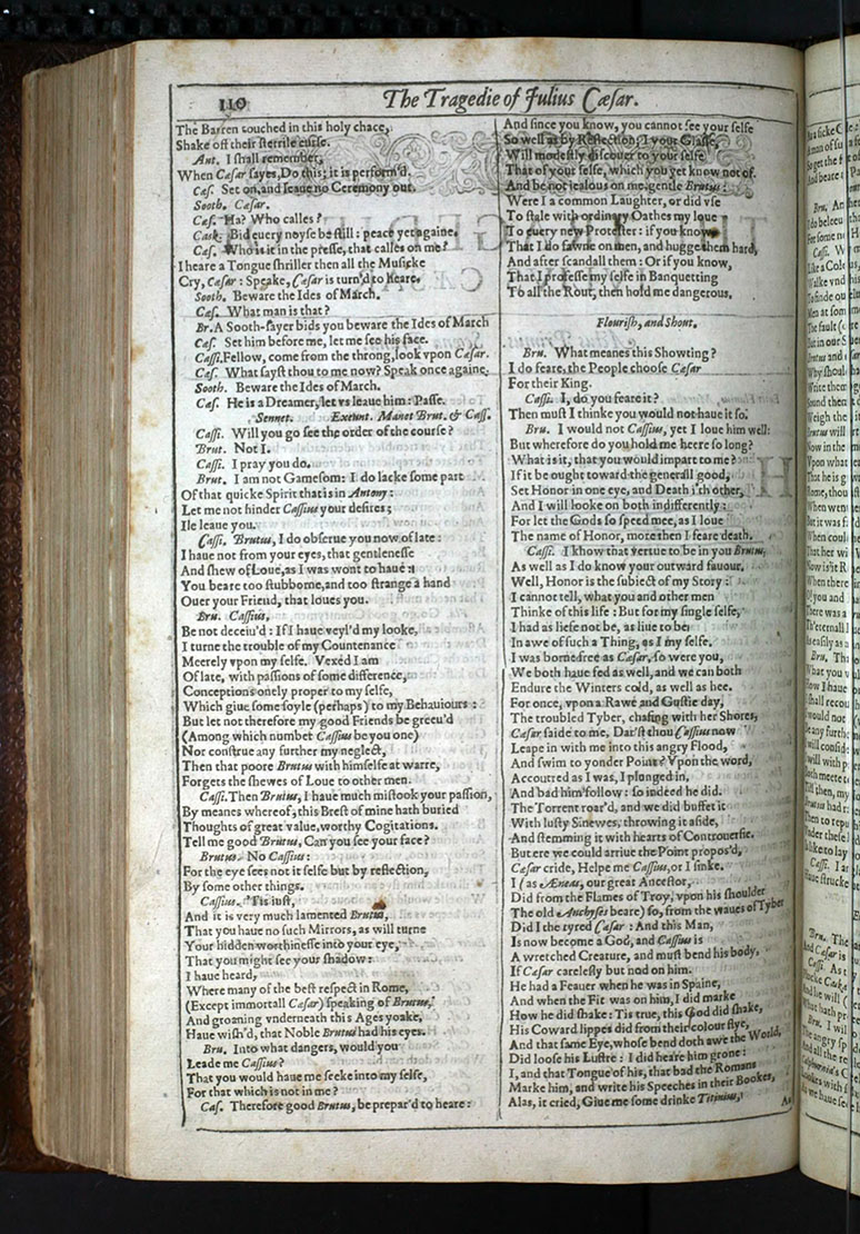 Beware the Ides of March!